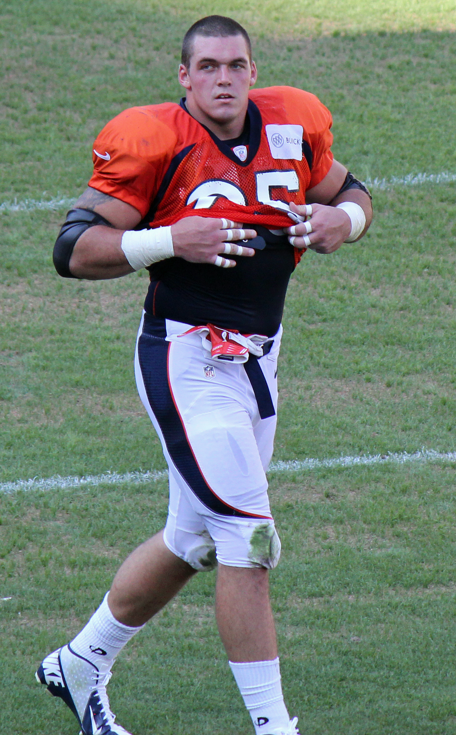 Derek Wolfe, a player on the National Football League.